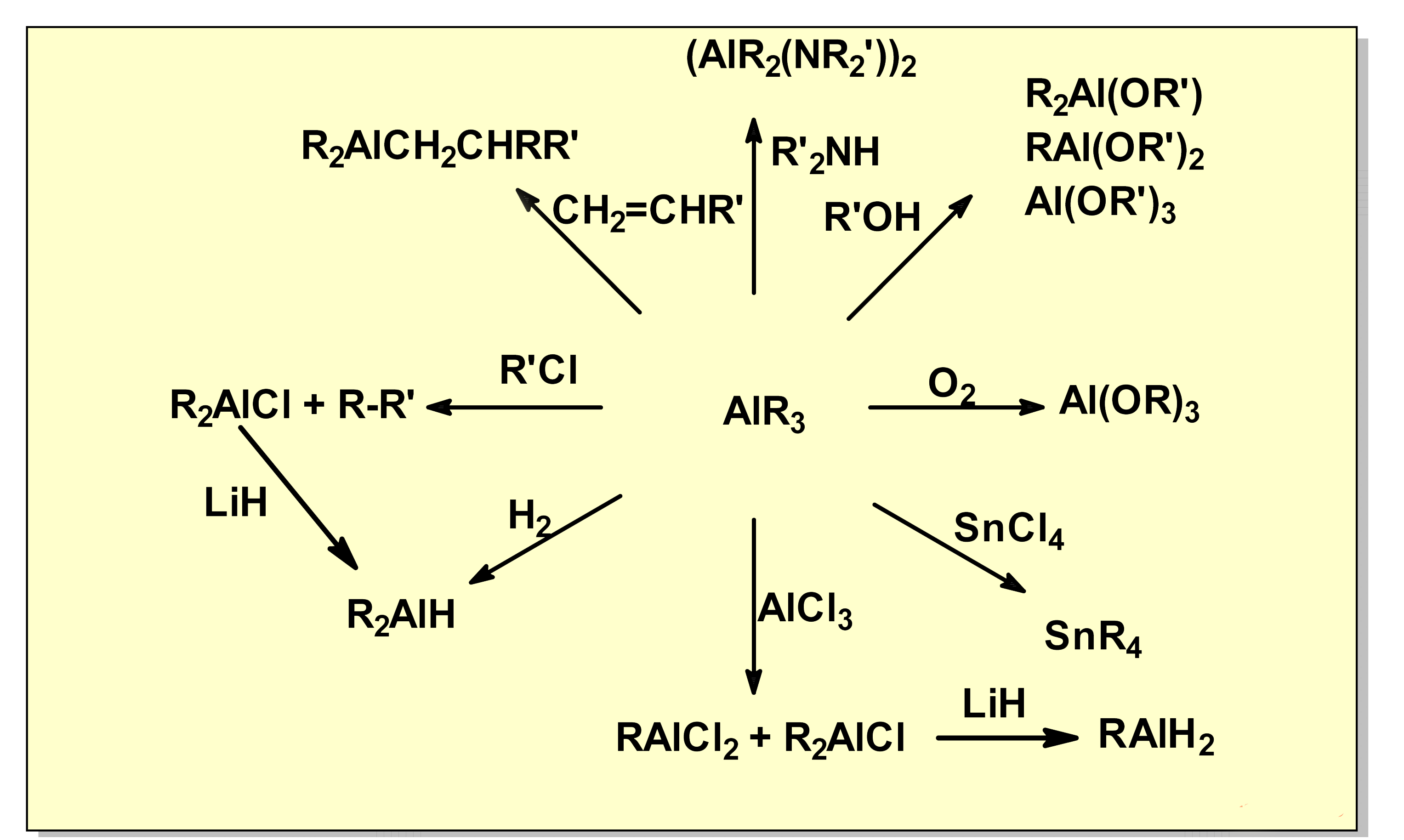 organoaluminic reactivity